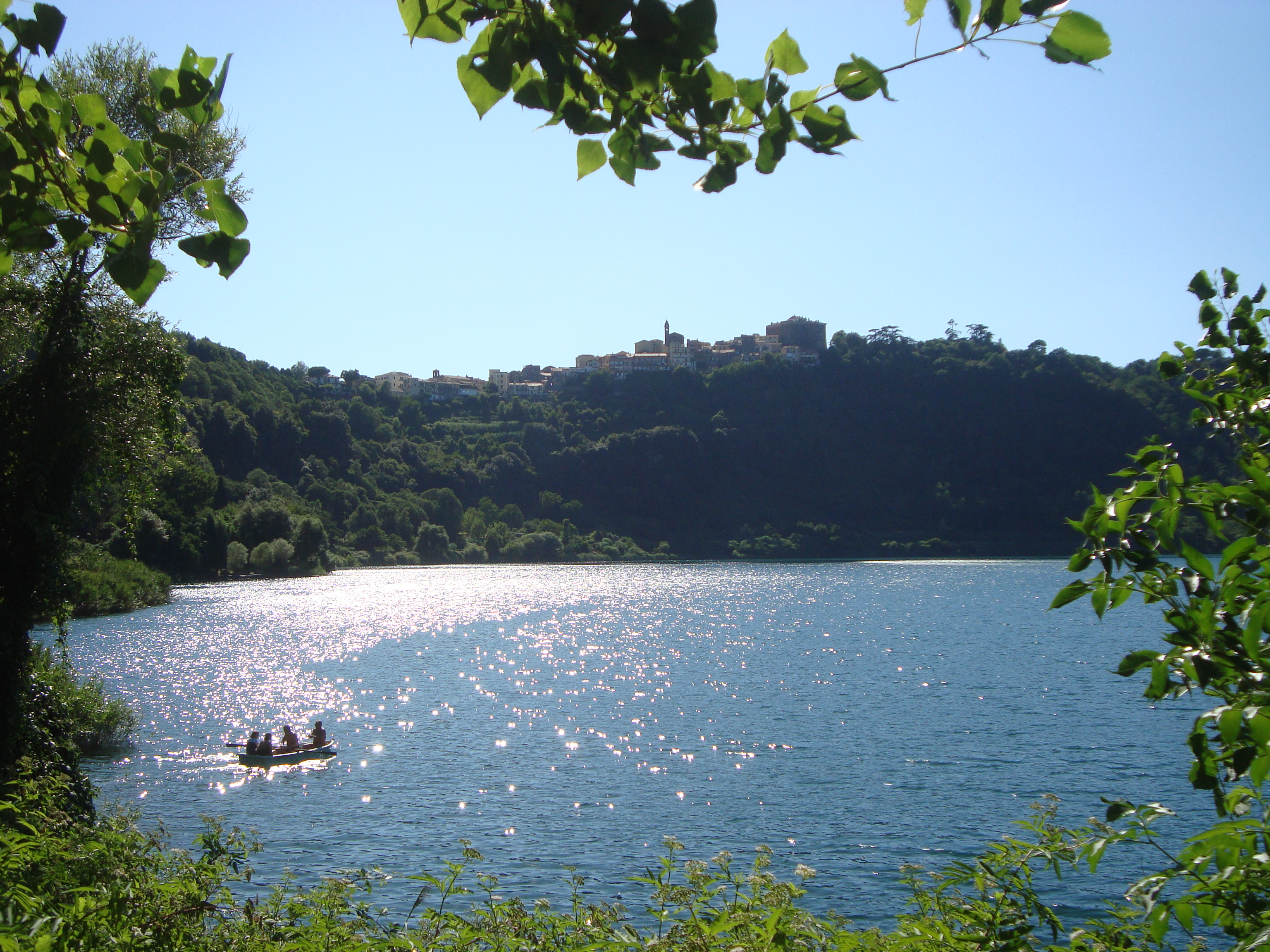 View of the lago di Nemi and Genzano di Roma